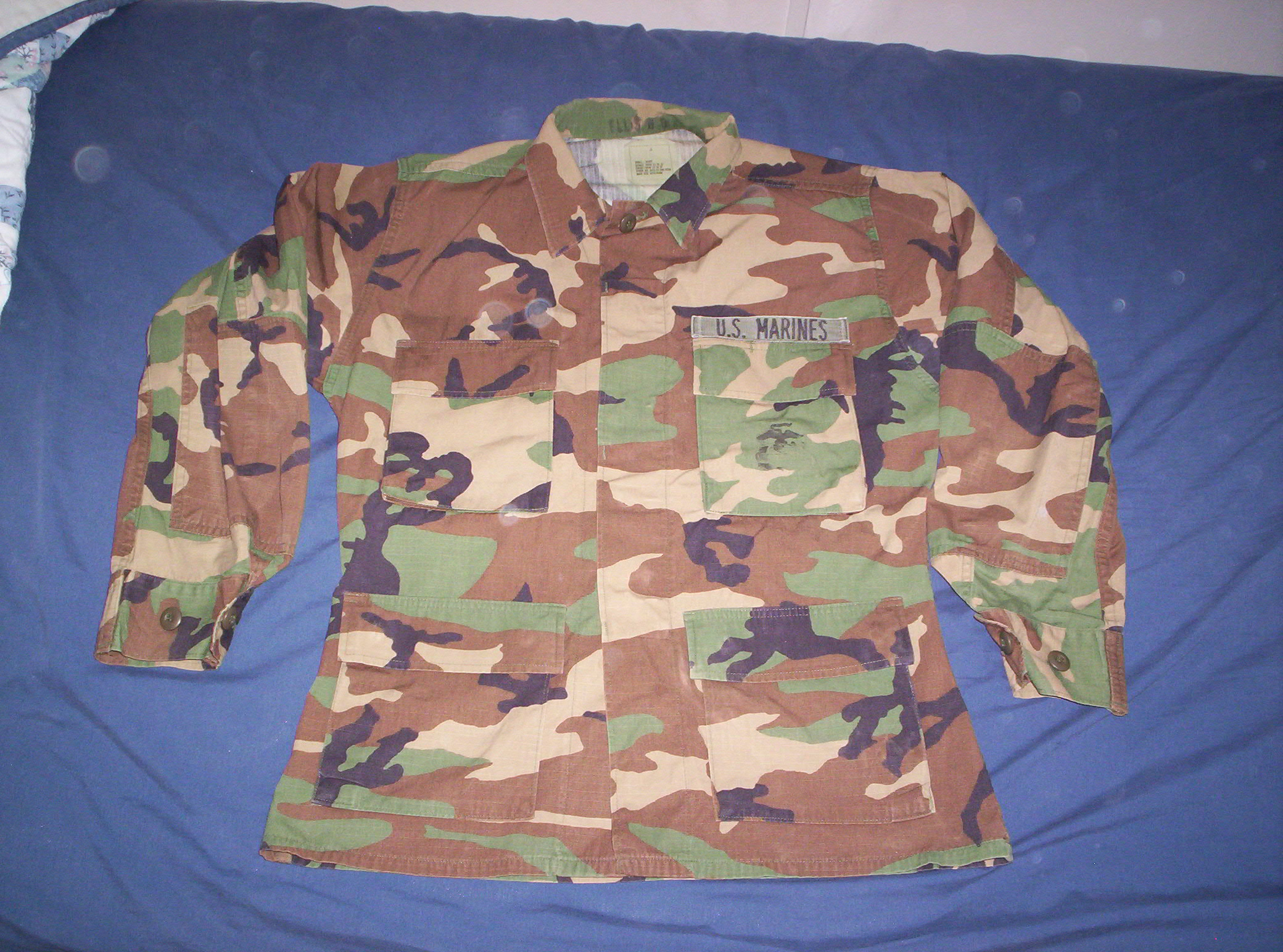 M81 Woodland Camoflauge Pattern BDU